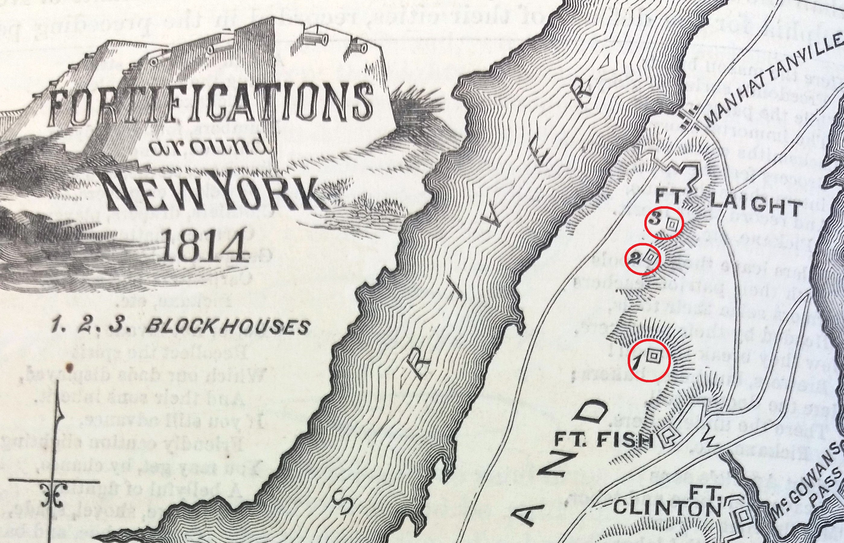 Manhattanville forts